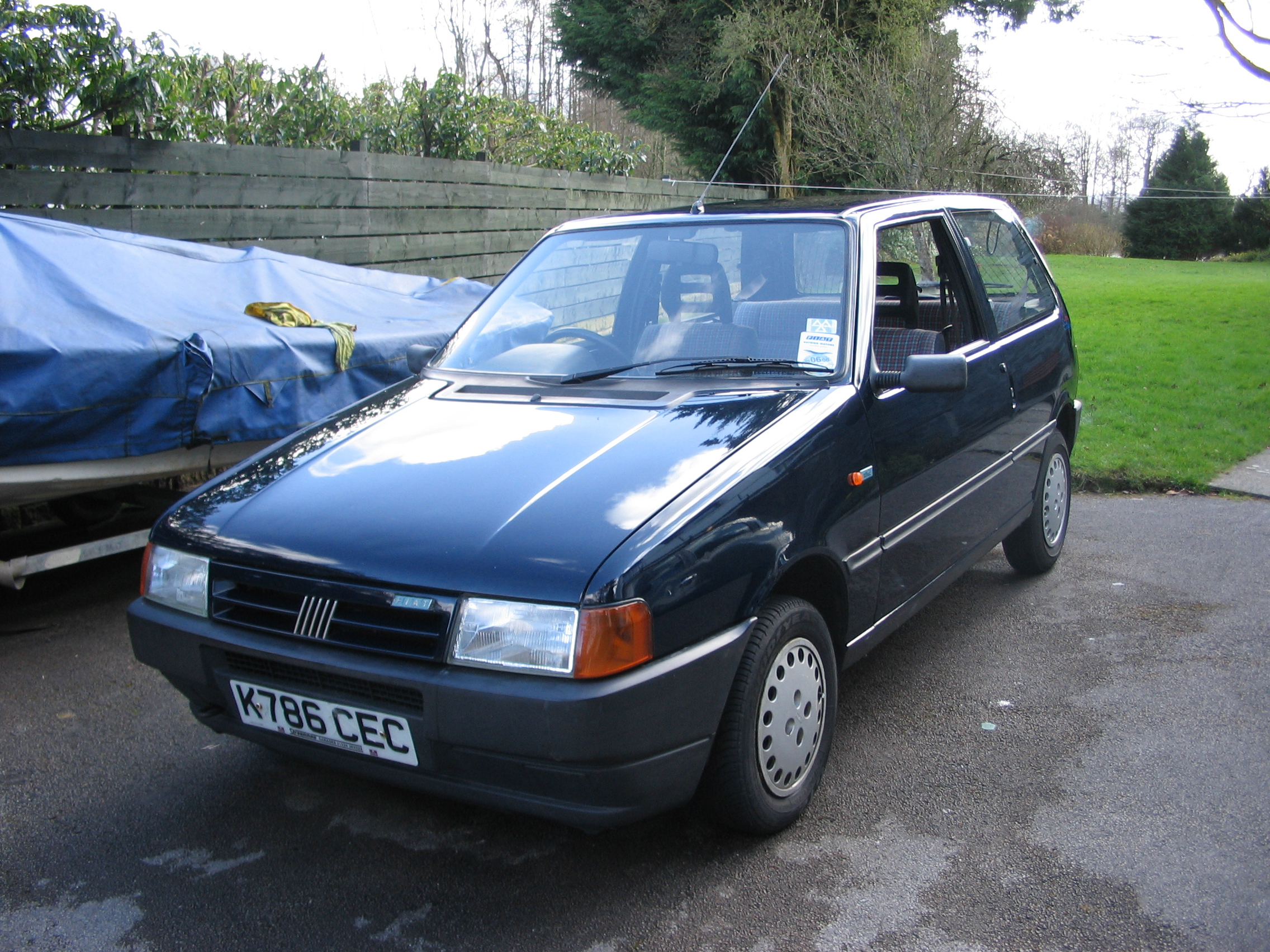 Fiat Uno Mk2